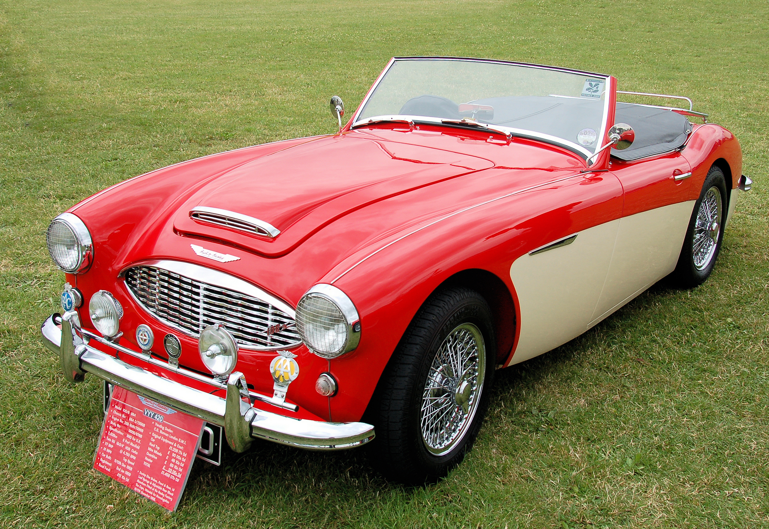 Austin-Healey 100/6 Sports BN4 at Kemble Air Day 2009, Kemble, Gloucestershire, England. Reg VYY 420, built 1958, 2639cc, top speed of this car 111 mph.